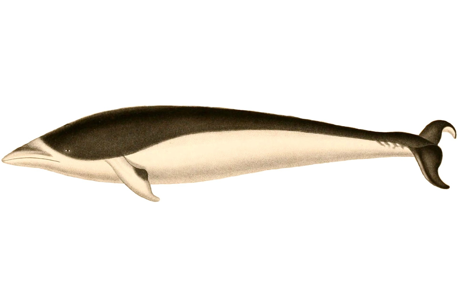 « Delphinus peronii » = Lissodelphis peronii (Southern right whale dolphin)